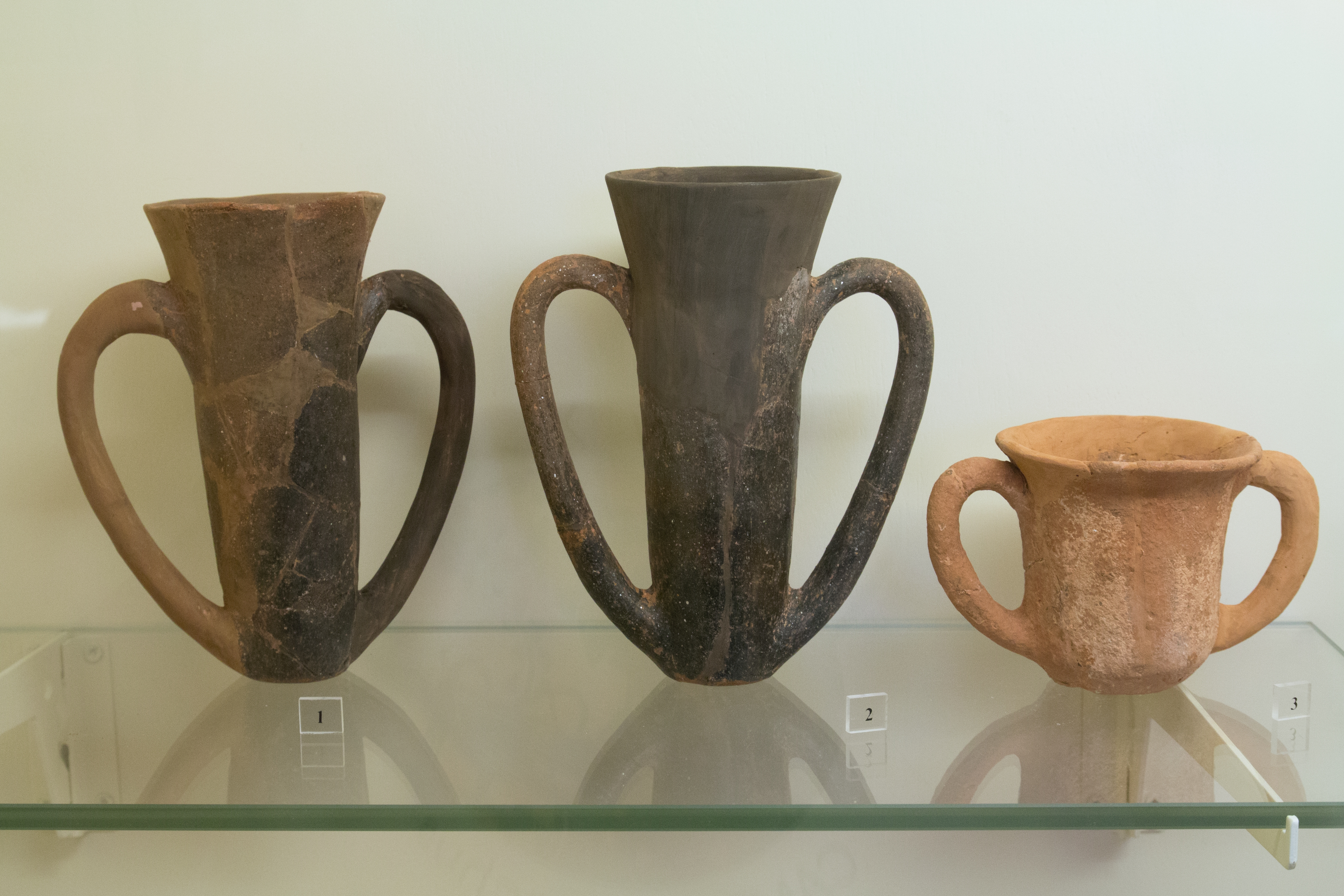 Anatolian pottery types: no. 1 (458), 2 (678), 3 (679). No. 1 and 2: Depas cups. From the Early Cycladic settlement of Kastri near Chalandriani. Kastri group phase, 2300 – 2200 BC. Archaeological Museum of Syros, Room 3.